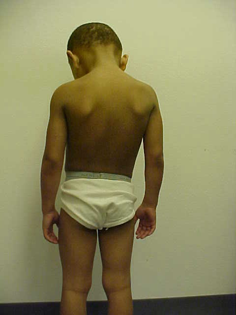 Boy with polygonal scales since birth. Brother, maternal uncle, and maternal grandfather affected.